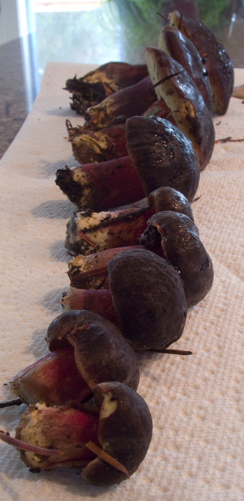 A collection of the edible bolete species Boletus zelleri Murrill. Photographed in Banner Forest, Kitsap County, Washington State, USA.